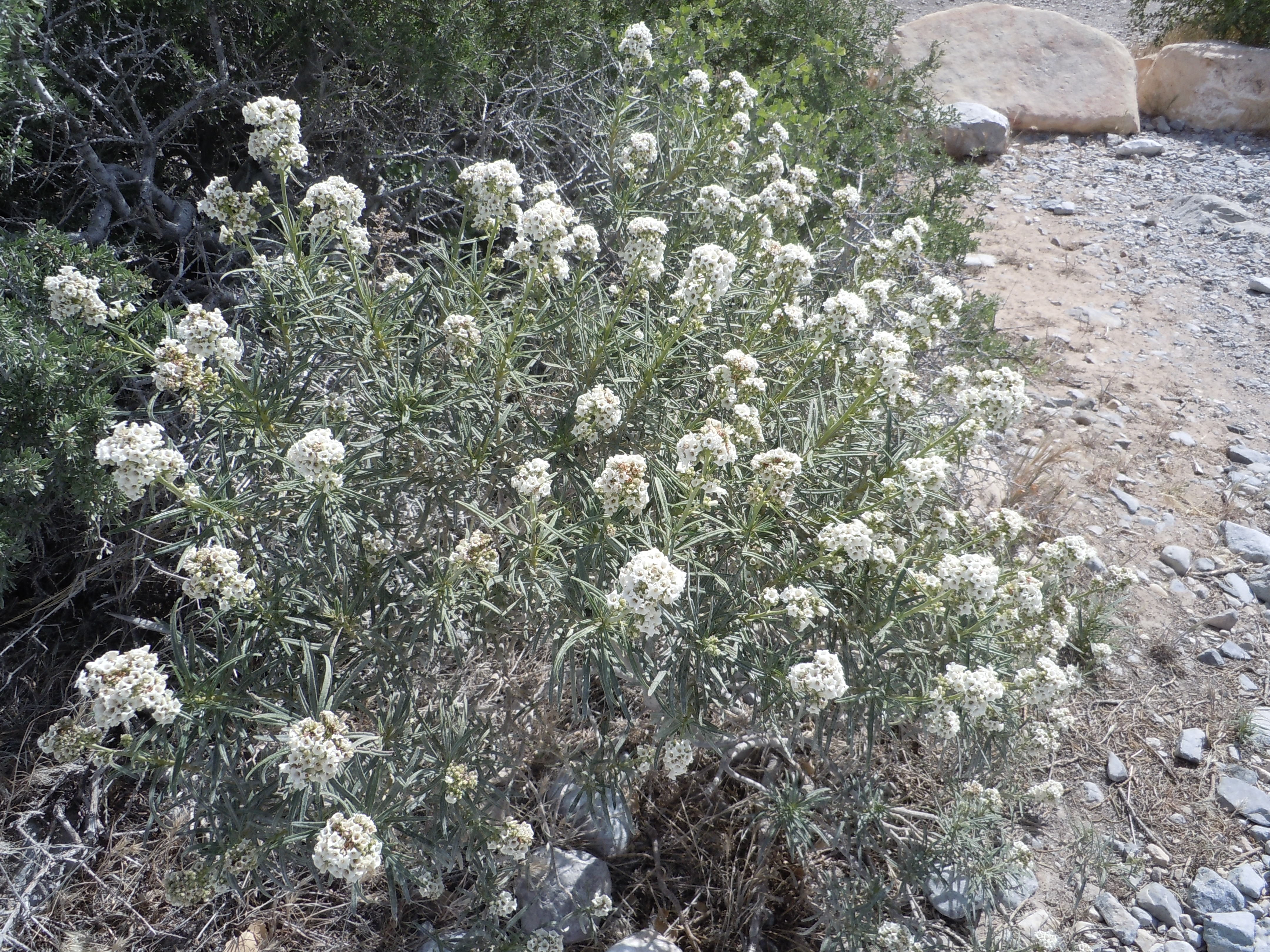 Yerba Santa (Eriodictyon californicum) found along the Willow Springs Trail in the Red Rock Canyon National Conservation Area right outside Las Vegas, Nevada. Photo by Jim Cribbs/BLM/2013